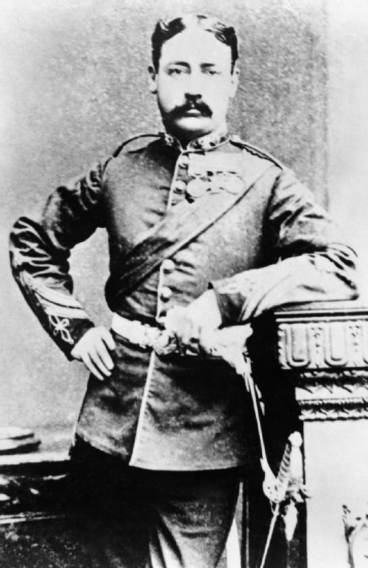 Portrait of Major Thomas Adair Butler VC, a veteran of the Indian Mutiny.